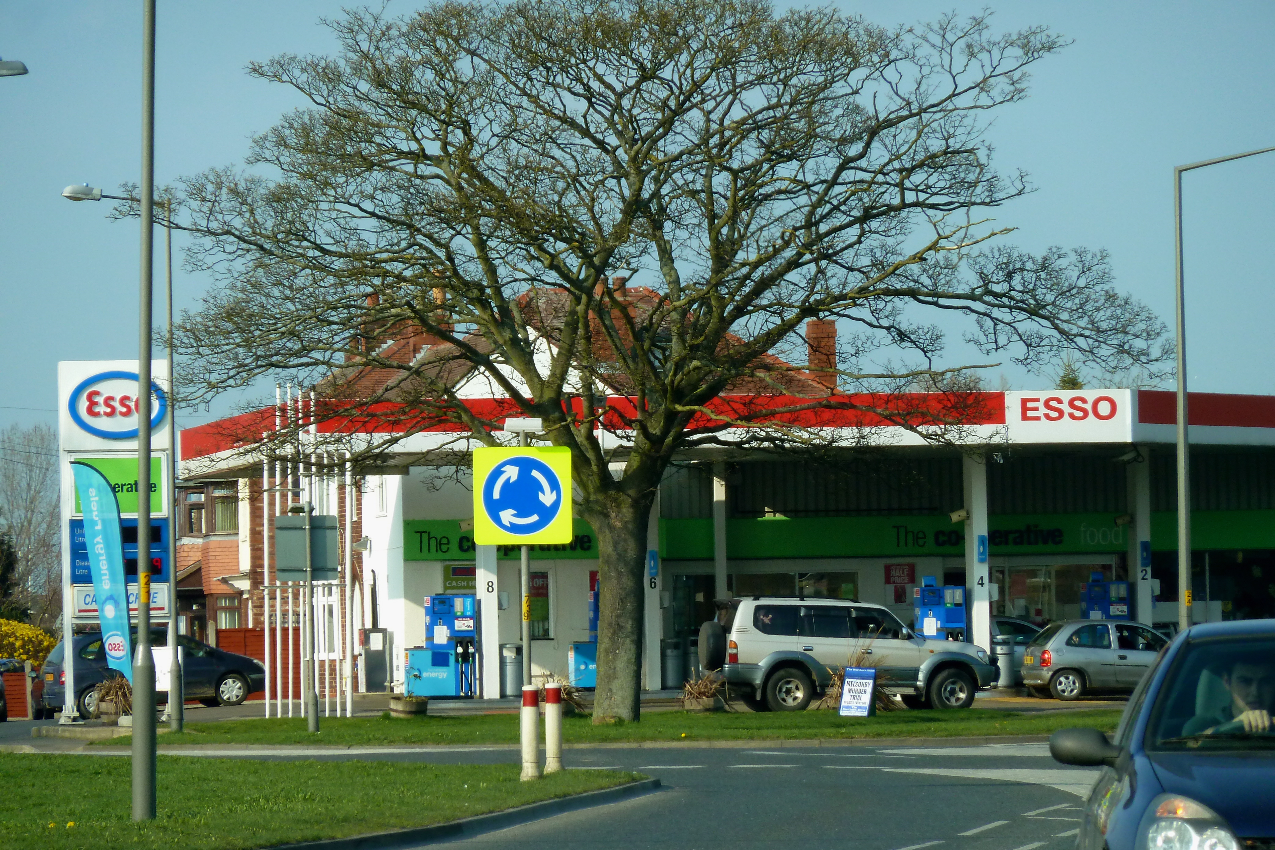 Esso Petrol Station